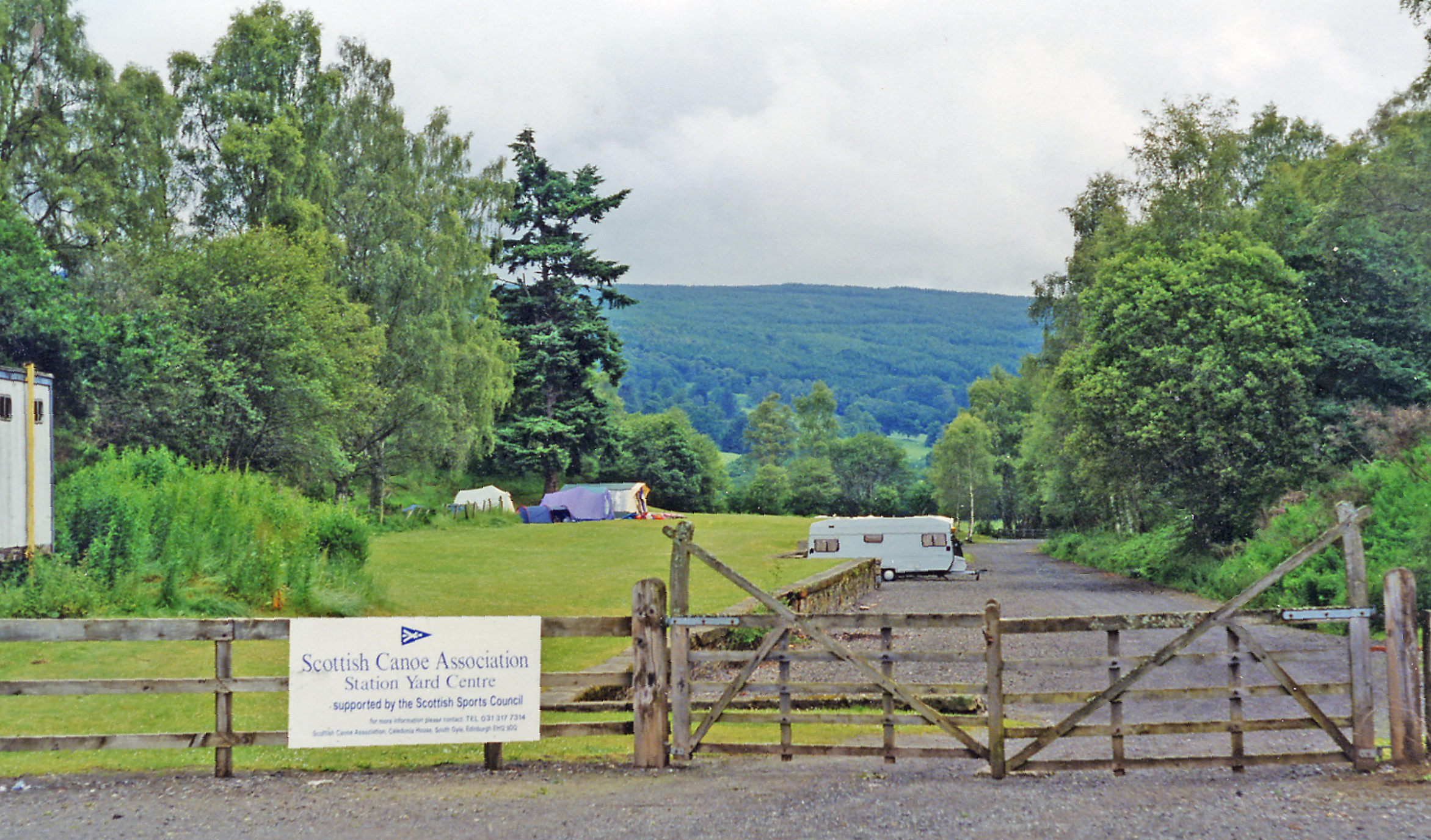 Grandtully station site/remains, 1997. View NE, towards Ballinluig: ex-Highland Railway Ballinluig - Aberfeldy branch, closed 3/5/65. The River Tay is down there somewhere.